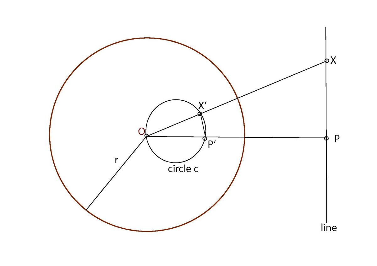 line drawing